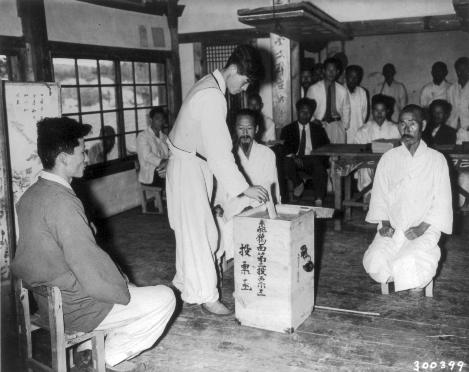 A Korean citizen drops a vote into ballot box in the presence of supervising election officials during today's first democratic election in Nae Chon, South Korea